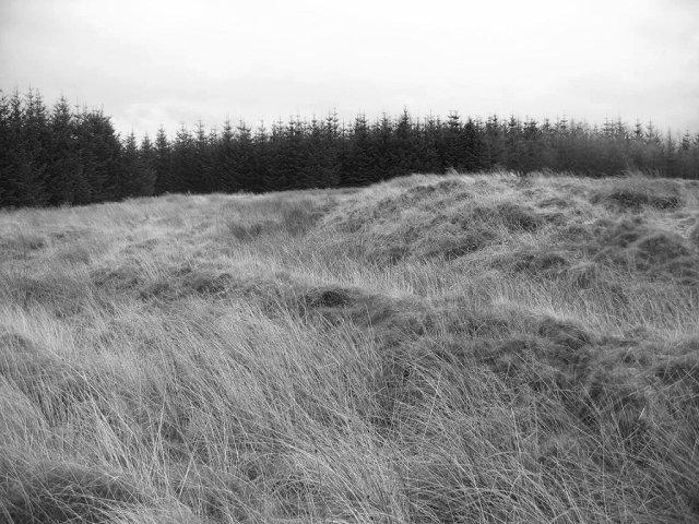 Castle Greg. Roman fort, spared the spruce.